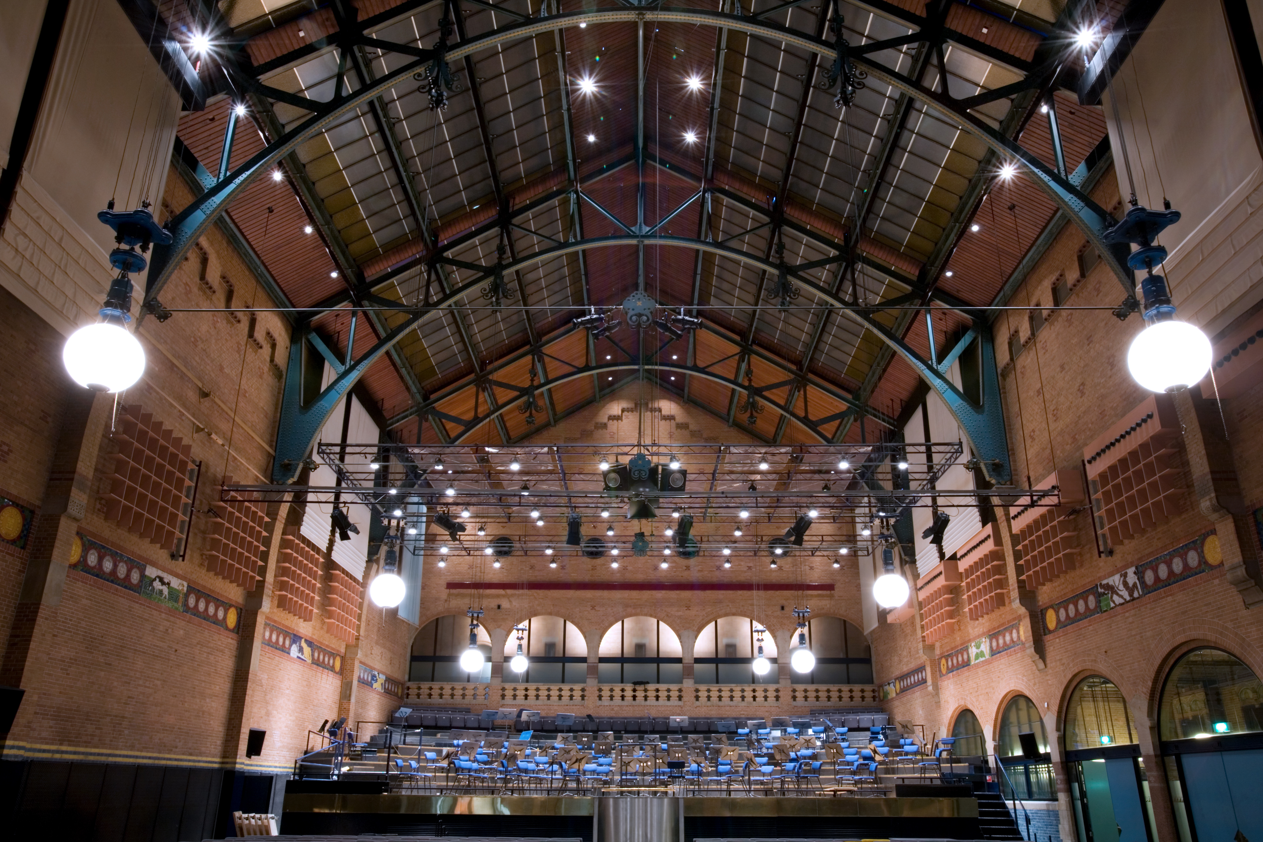 Beurs van Berlage concert hall. Amsterdam, The Netherlands